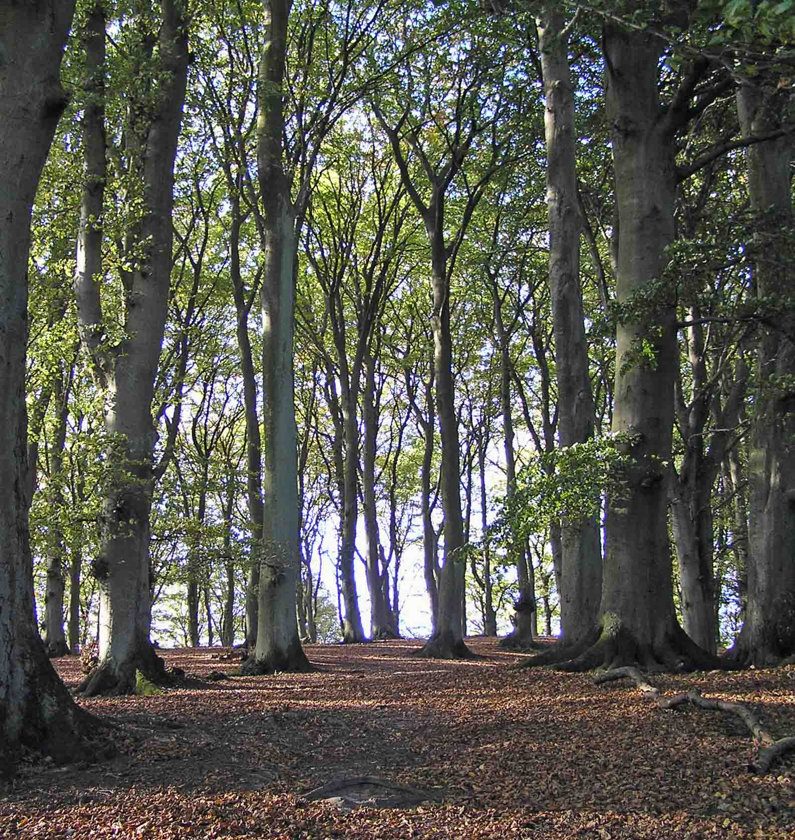 Beech grove near Gammel Lejre. Photo by J.Niles.